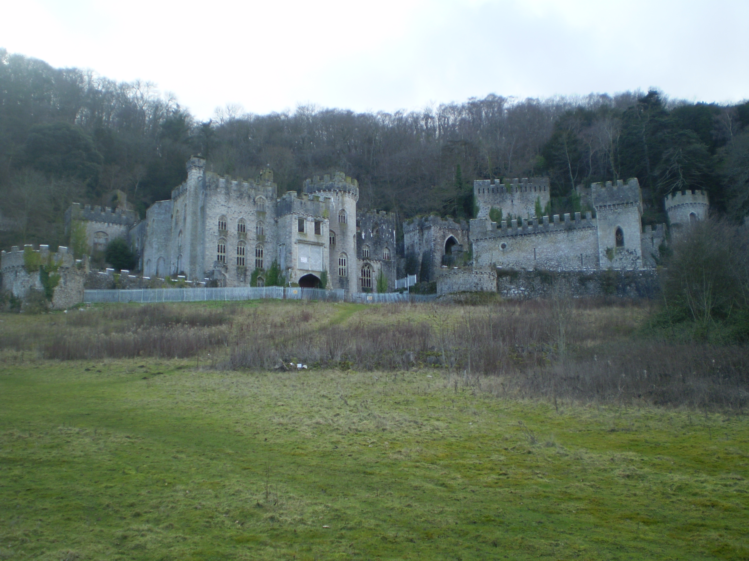 Gwrych Castle north wales